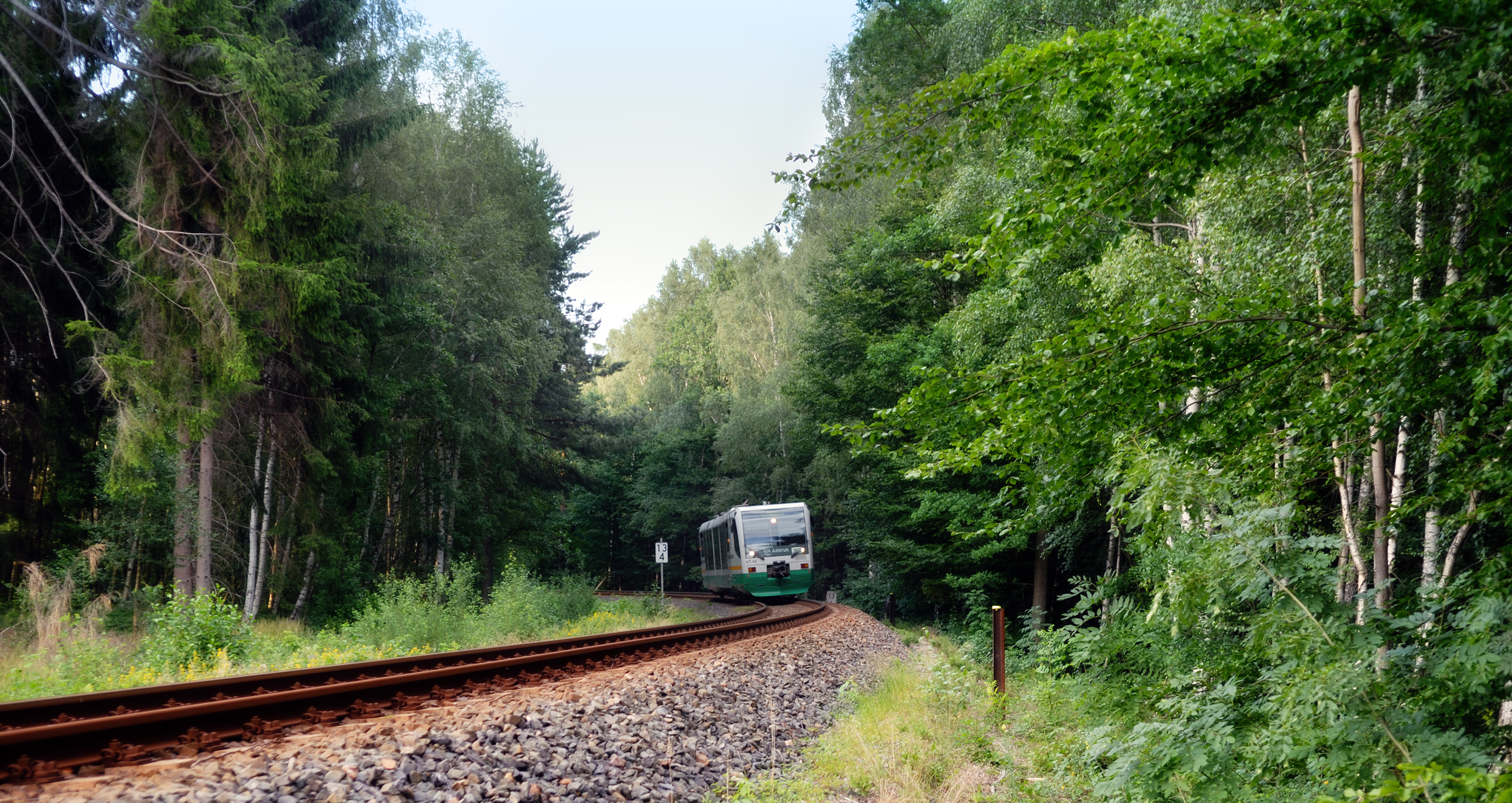 This image shows the Vogtlandbahn ("Vogtland railway") near Irfersgrün, Germany.